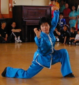 Hao Zhi Hua, taken by Mike Carlson. Free to use.